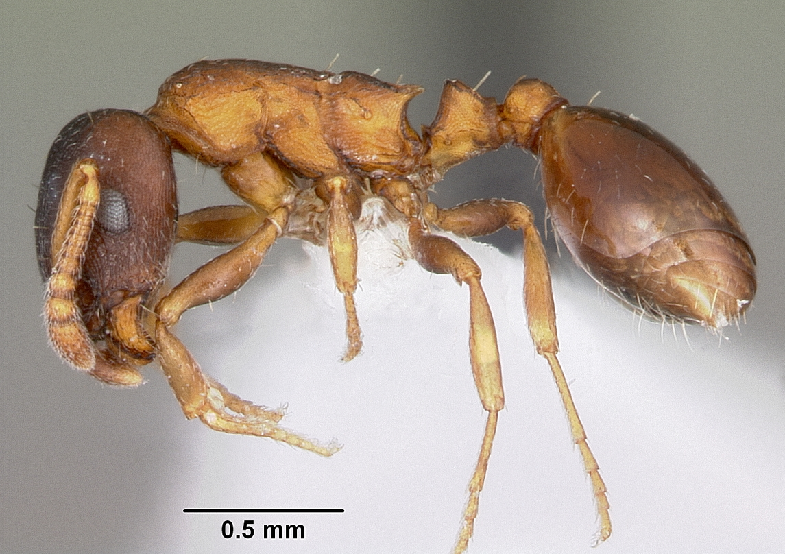 Profile view of ant Leptothorax muscorum specimen casent0104847.